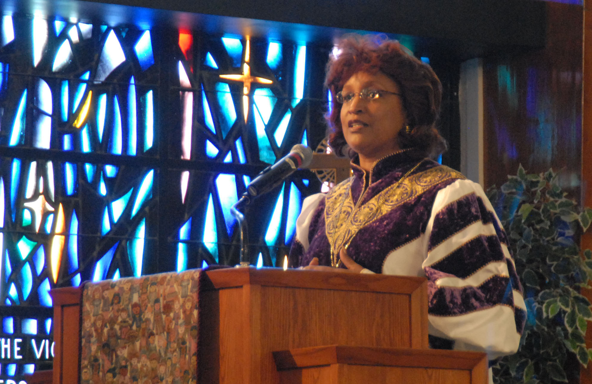 Bishop Vashti Murphy McKenzie, African Methodist Episcopal Church consecrated bishop, addresses Team Edwards during the Dr. Martin Luther King Jr. observance at the Chapel 1 Sanctuary on Jan. 10.